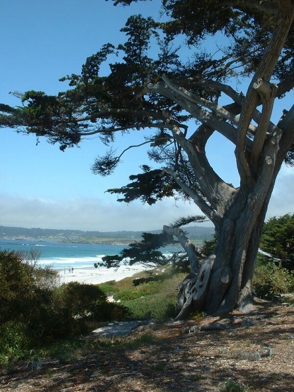 A view towards the beach in Carmel, California. Reduced from a photograph taken on 16th June 2004 by Stephen Lea. MPF identifies the tree in the foreground as a Monterey Cypress, native to Carmel.